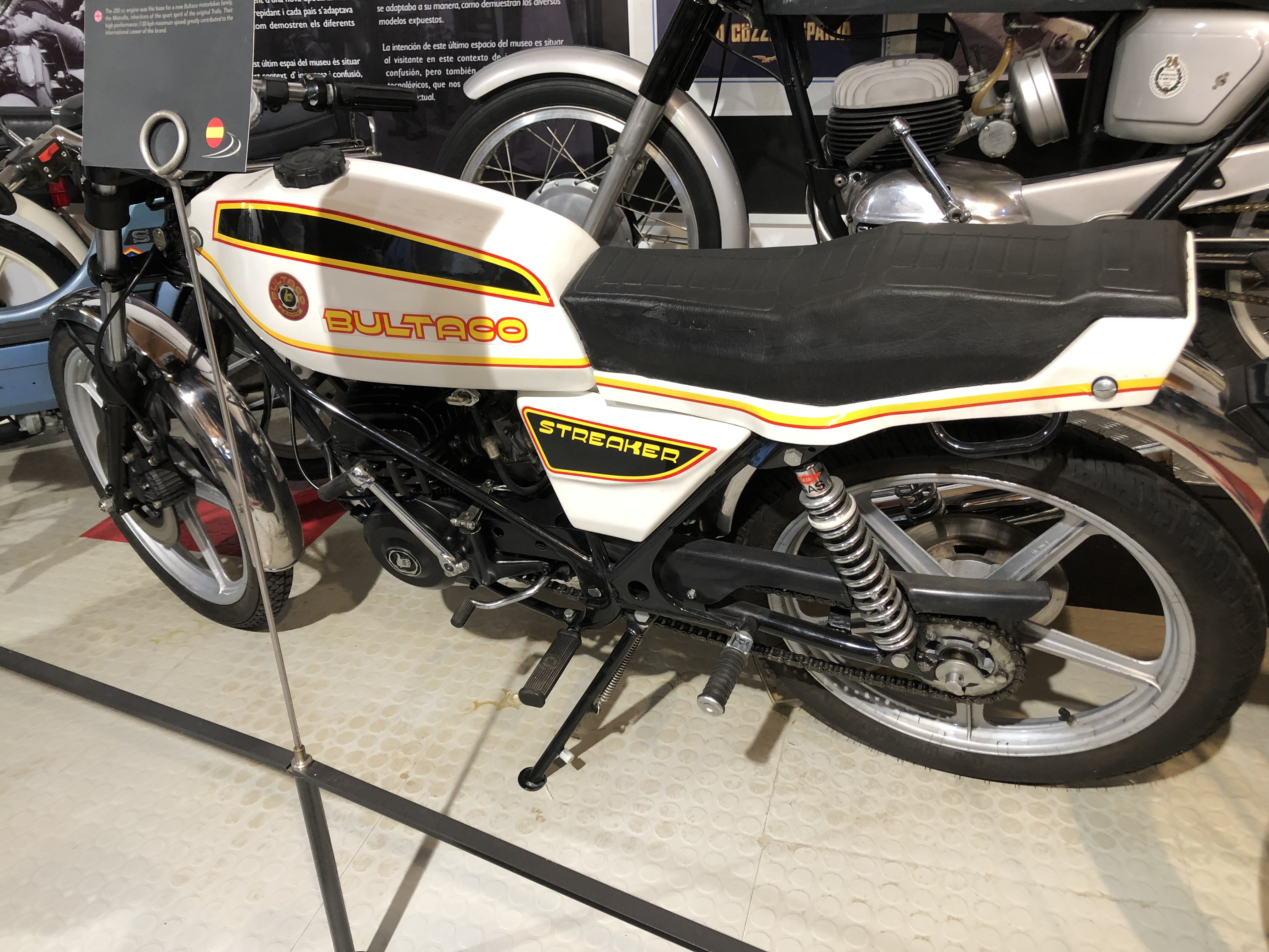 Forefront: Bultaco Streaker 125 (aka 118), 1979